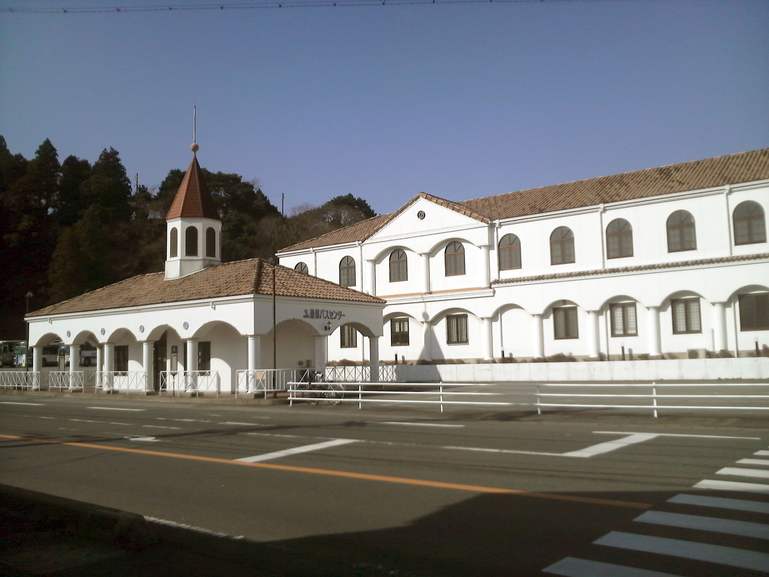 The "SANCO(Mie Kotsu Co.,Ltd.) Shima office & Isobe Bus-center(Bus station)" in Shima city, Mie Prefecture, Japan.